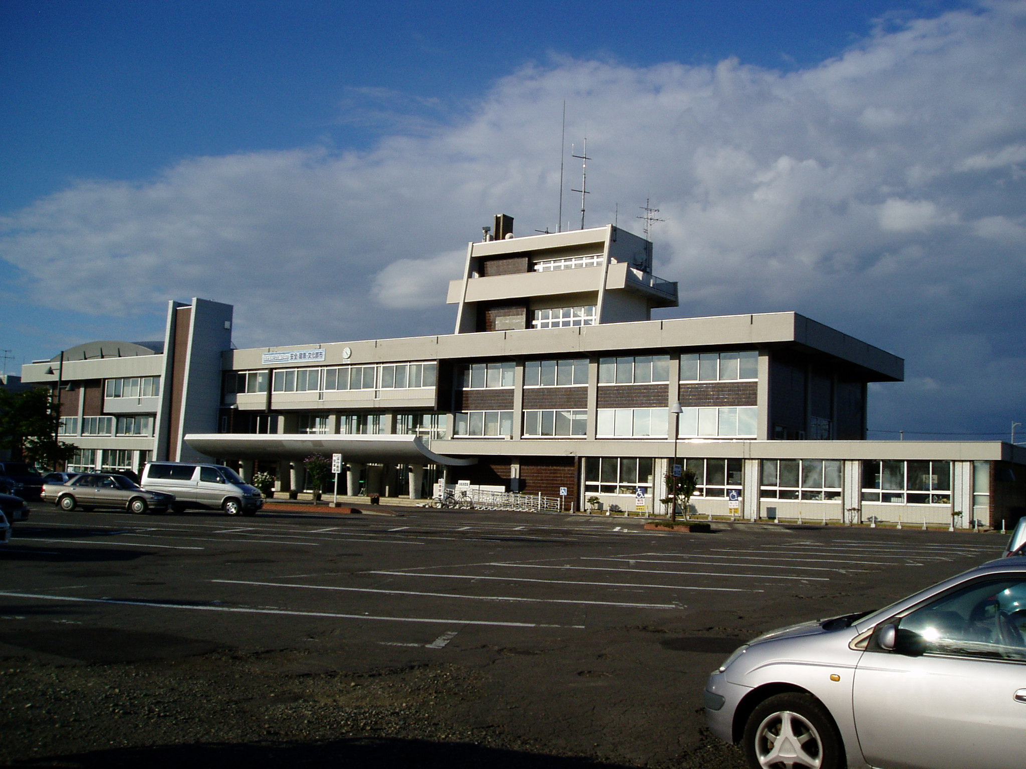 Iwamizawa City Hall in Hokkaidō Preferture, Japan